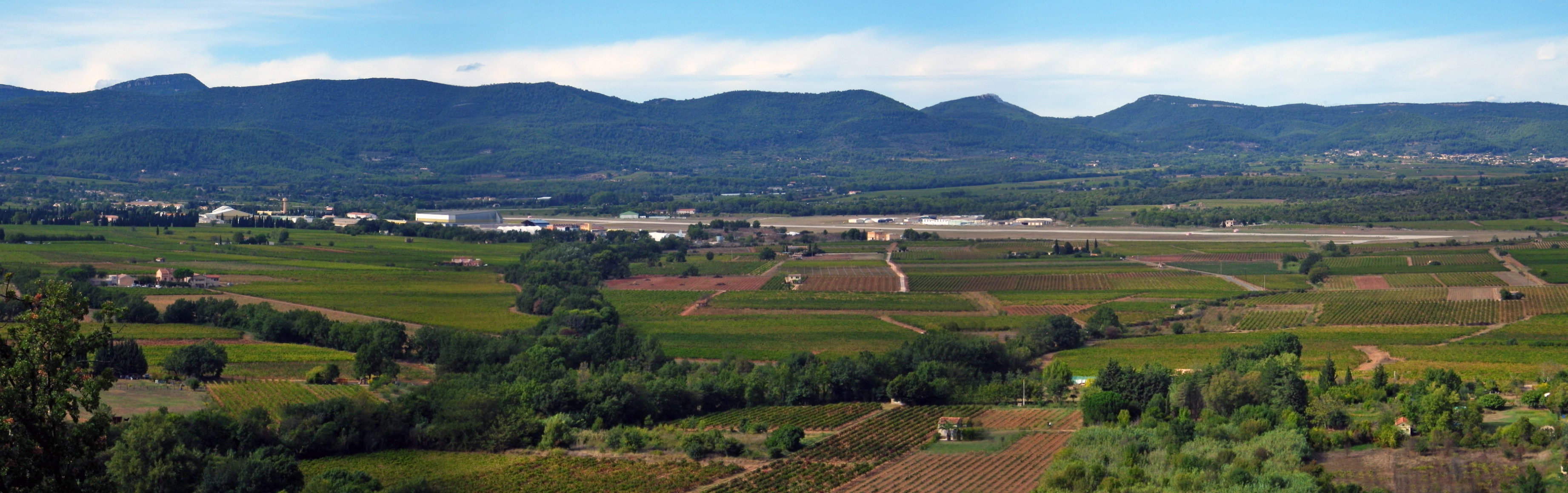 Airfield between Cuers and Pierrefeu-du-Var (Var department), France seen from Pierrefeu